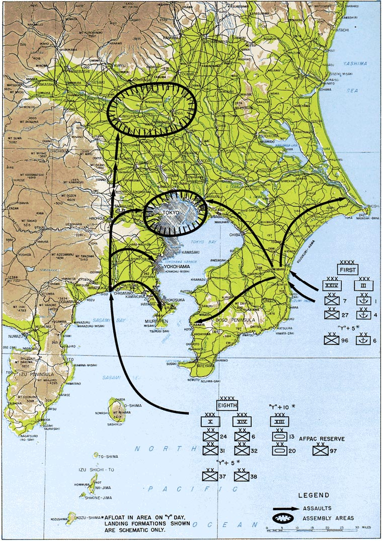 Operation Coronet, part of Operation Downfall from Originally from "Reports of General MacArthur" -1966 Government printing office -- public domain